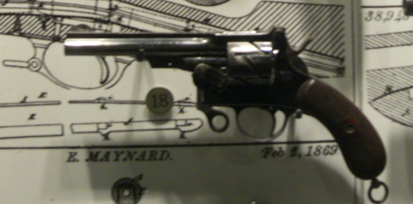 Cutout from the image Mauser Zig-Zag&Webley-Fosbery.jpg